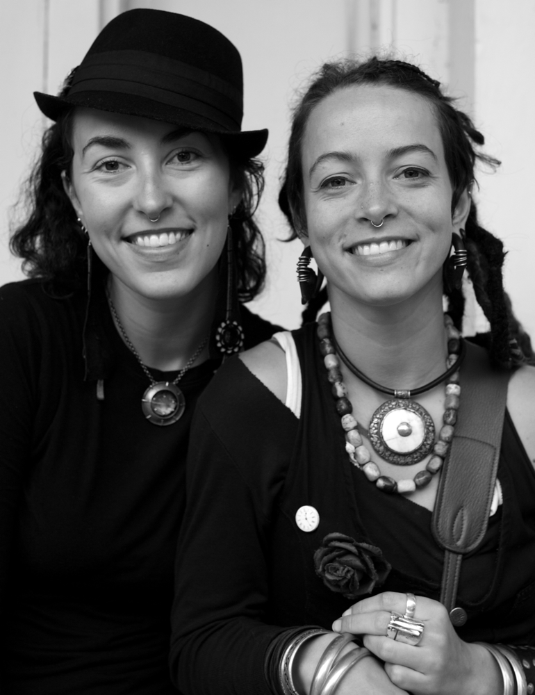 Sisters Chloe (left) and Leah (right) Smith, lead singers of the music group Rising Appalachia. Taken 29. Januar 2010 in New Orleans.